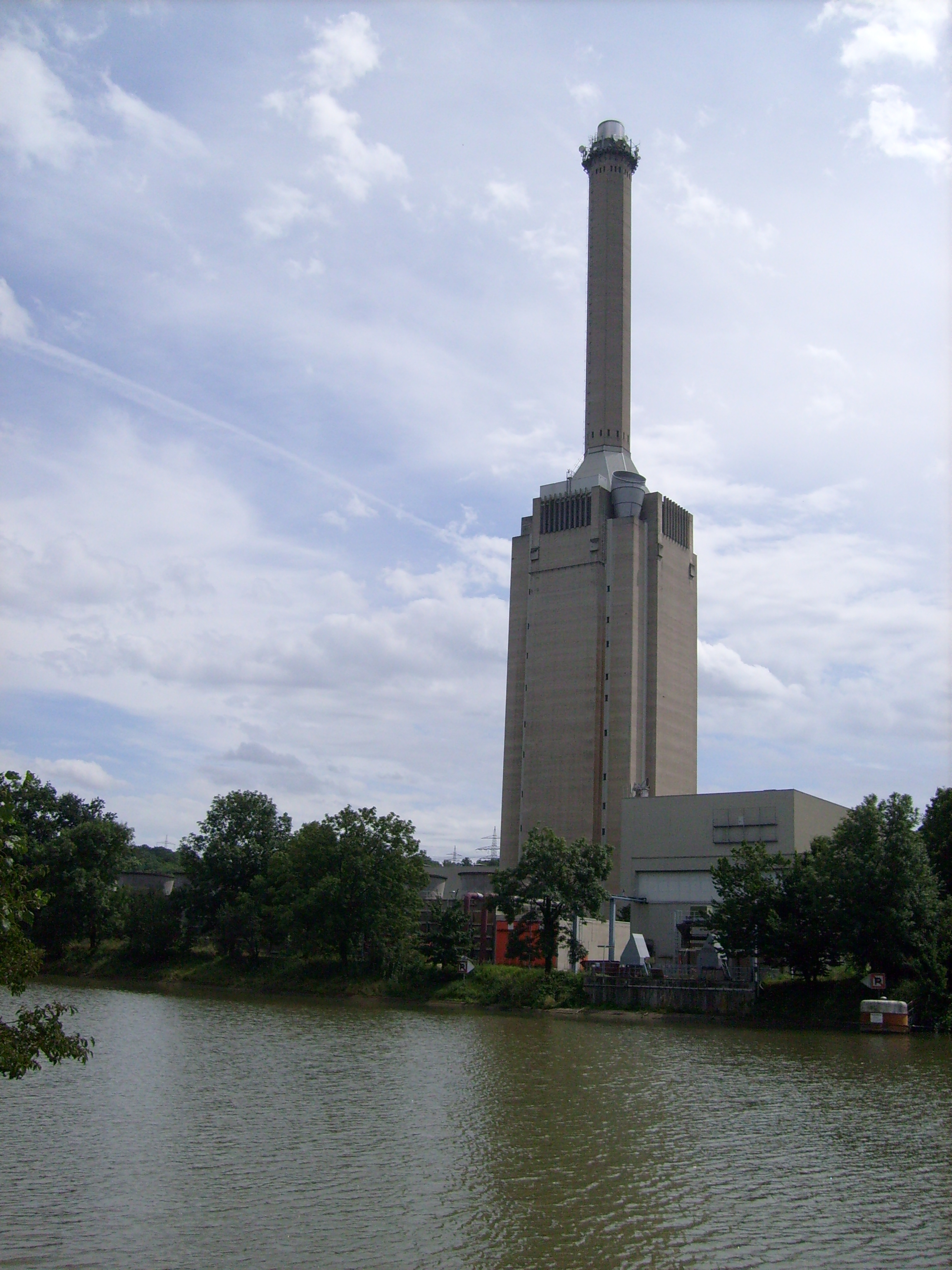 The Marbach power plant near Marbach, Germany